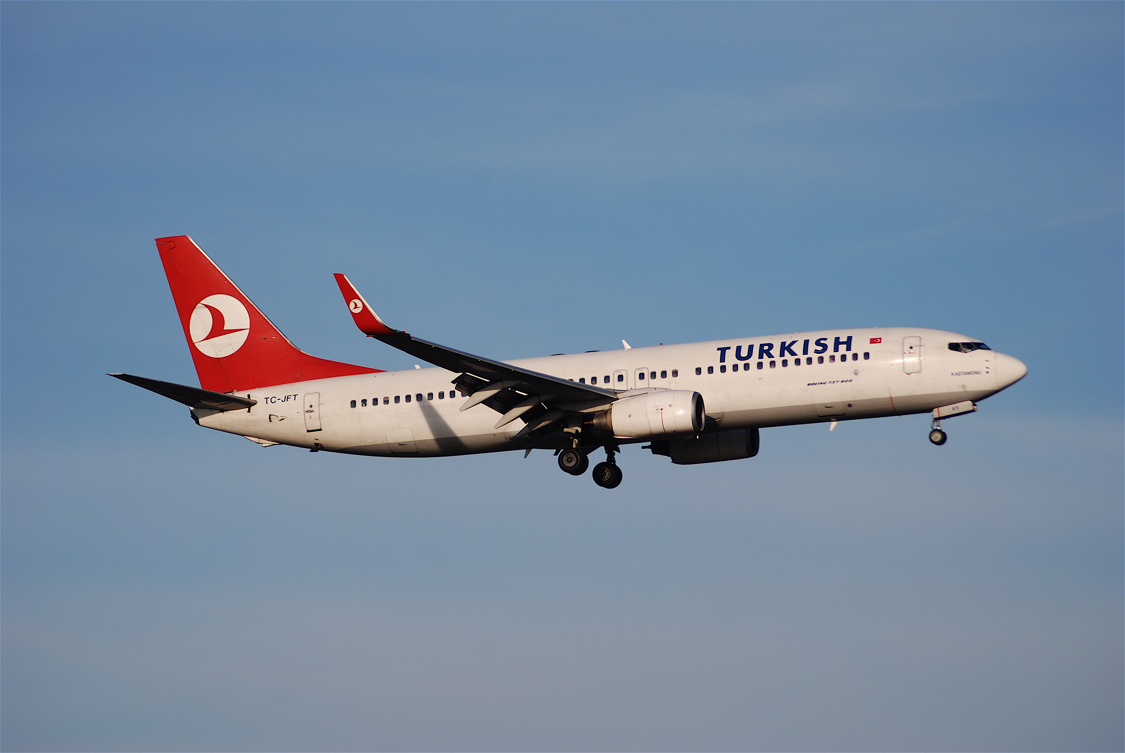 Turkish Airlines Boeing 737-800; TC-JFT@ZRH;26.01.2008/494fm